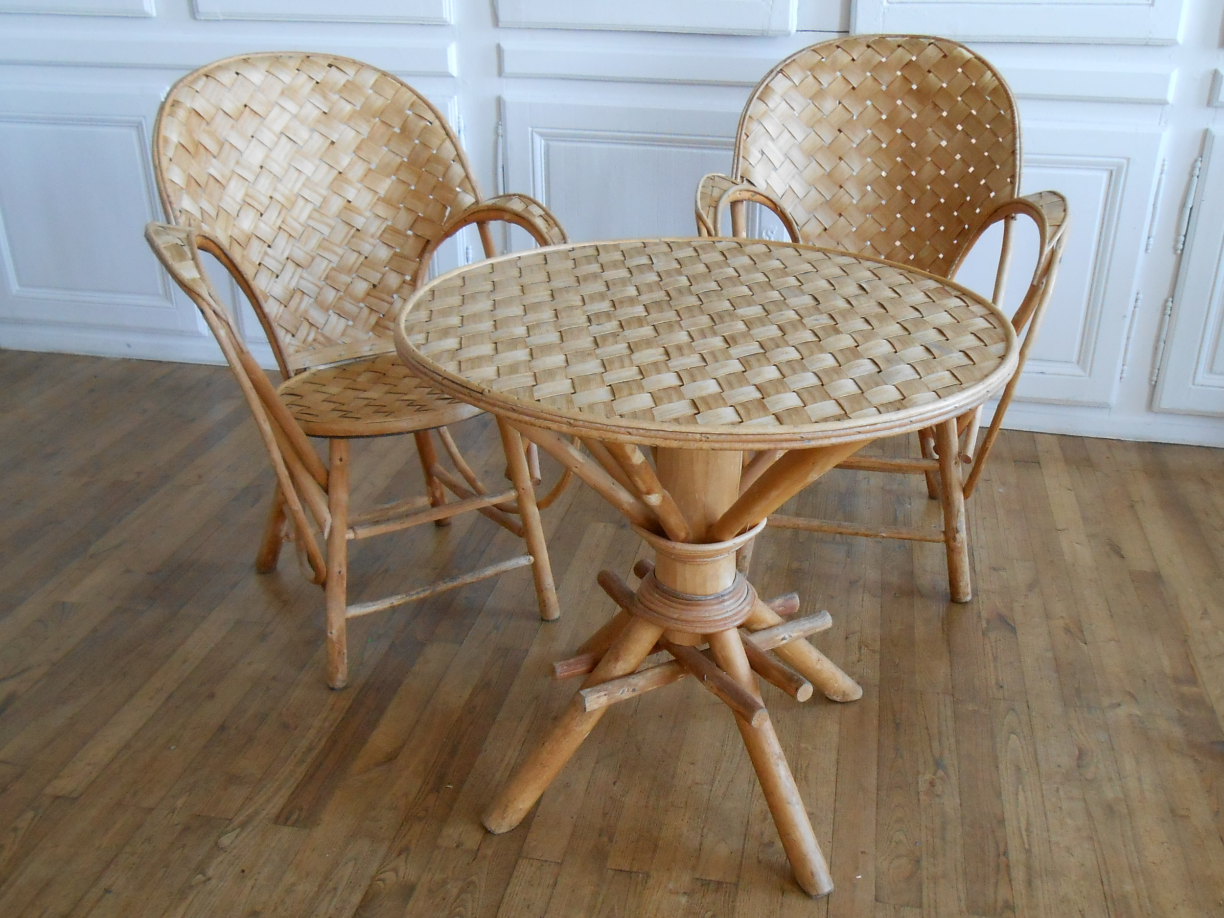 Typical table and chairs made of Limousin chestnut, France.